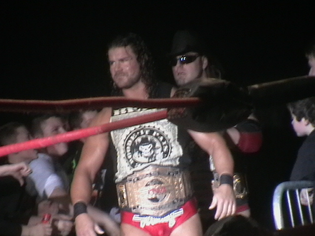 This is a picture of Beer Money, Inc (Robert Roode and James Storm) at a house show in Dublin, Ireland for the TNA Maxium Impact tour.